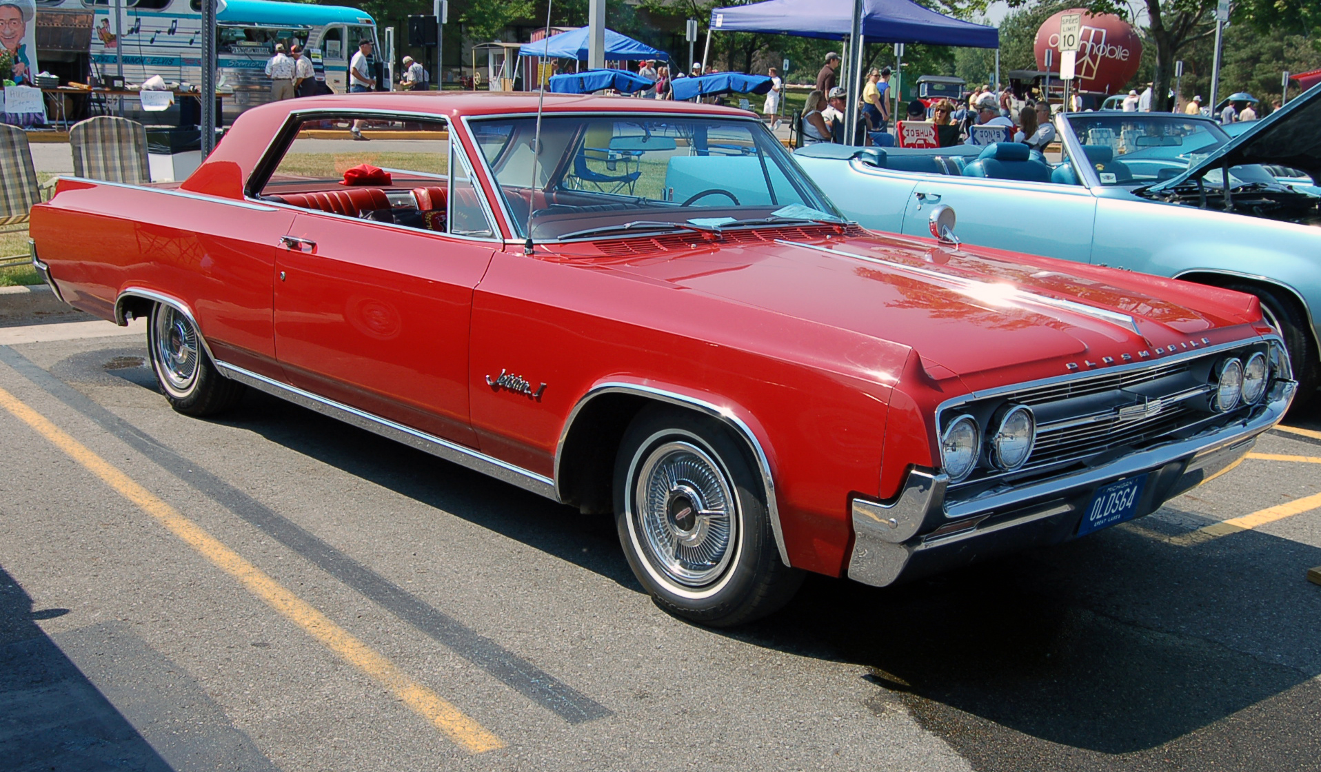 1964 Oldsmobile Jetstar I. Taken at the 2007 Oldsmobile Homecoming in Lansing, Michigan